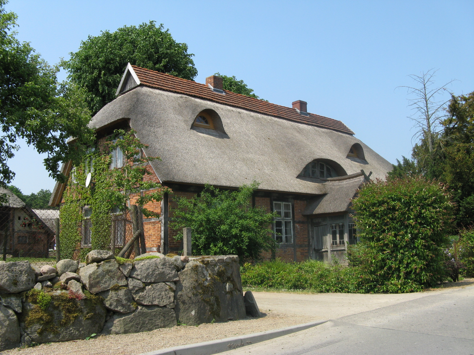 Timber framed house with thatched roof in Lassahn, district Ludwigslust-Parchim, Mecklenburg-Vorpommern, Germany